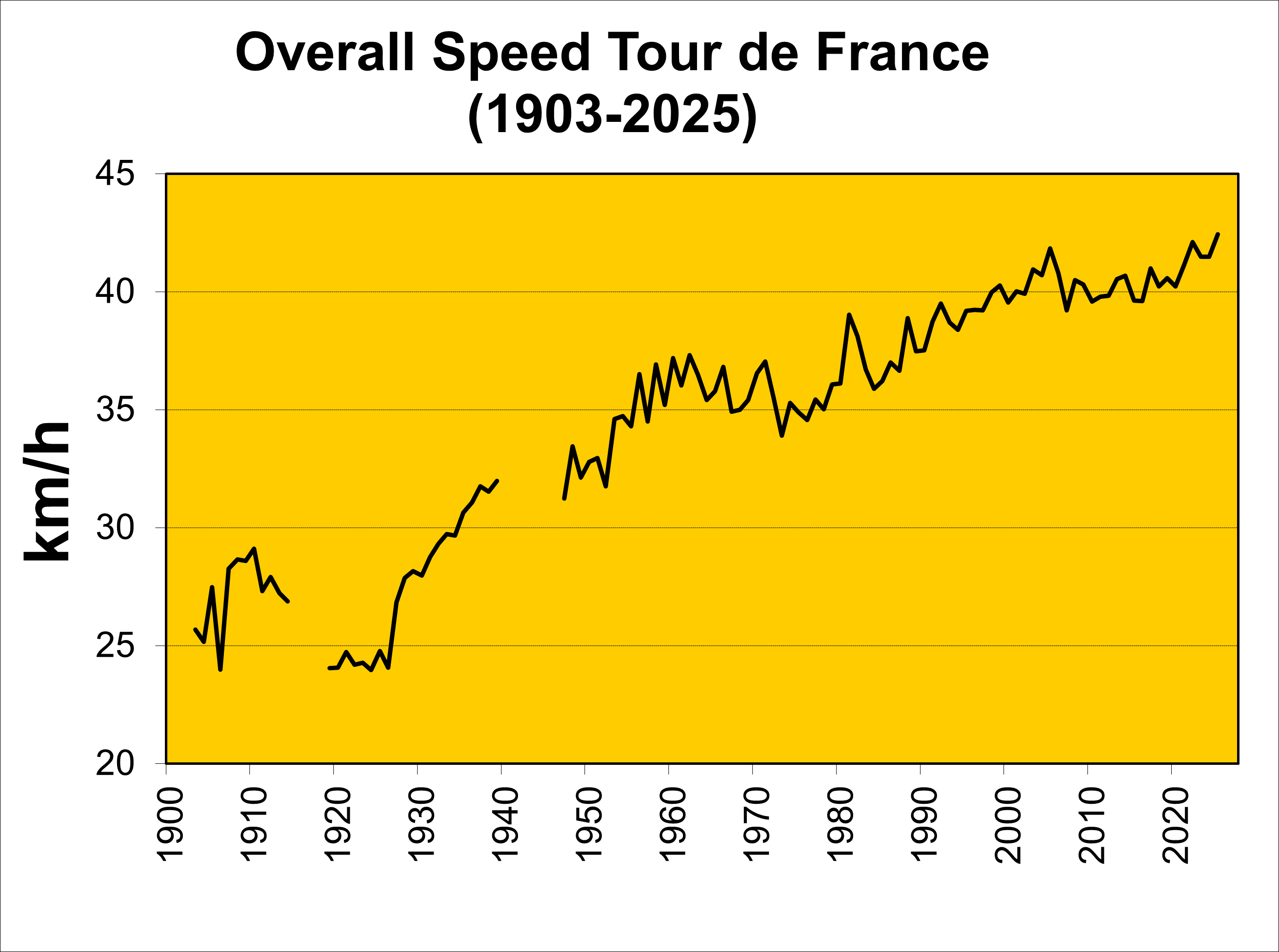 This image shows the overall speed of the Tour de France from 1903 until today.